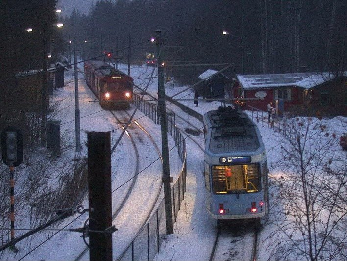 Jar Station with T1300 train and SL79 (no. 140) tram.